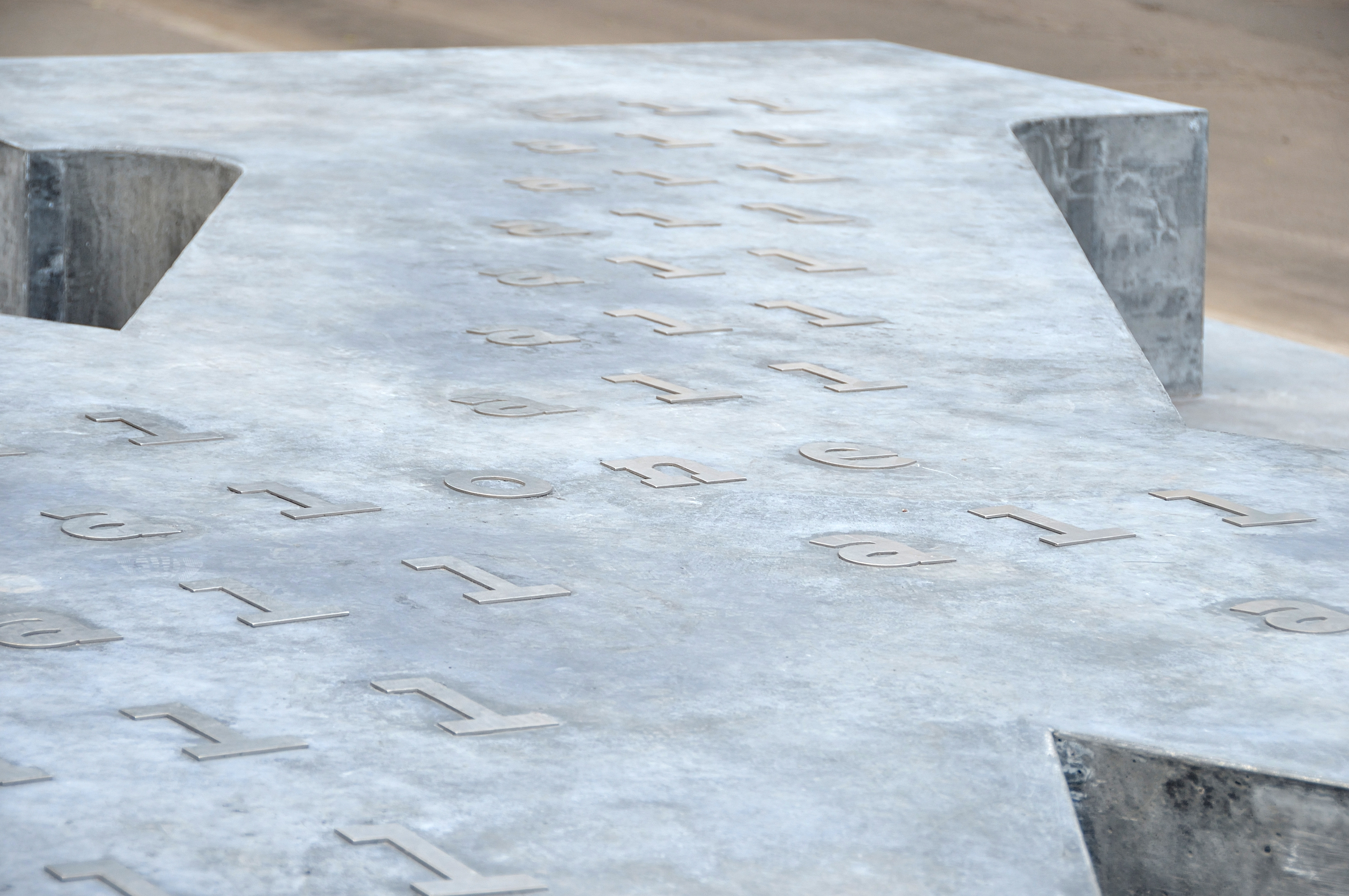 The memorial for the victims of Nazi Military Justice by Olaf Nicolai was created in 2014. It is located at the Ballhausplatz, Vienna, quite in the center of local Austrian government.